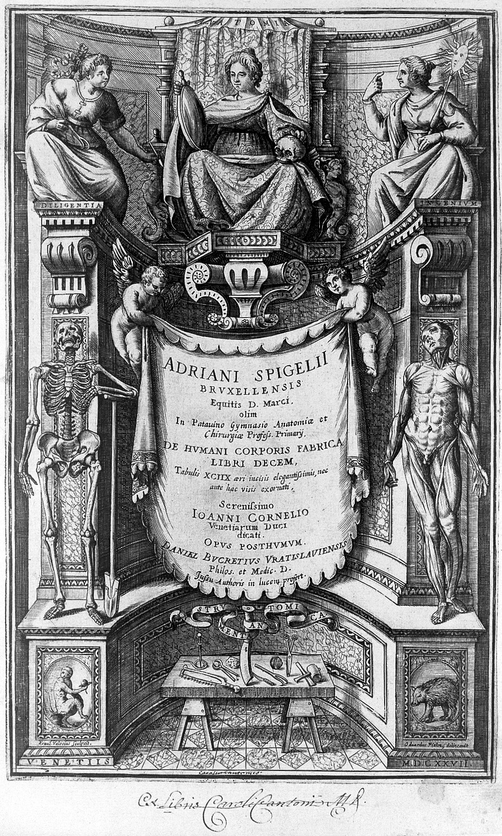 Title page. Rare Books Keywords: Placentinus Julius Casserius; Adrianus Spigelius